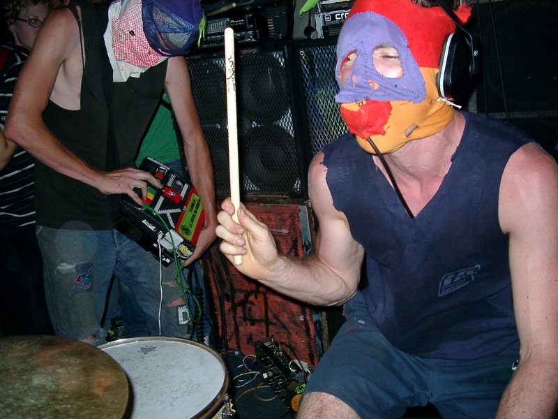 Brian Chippendale and Matt Brinkman of Mindflayer